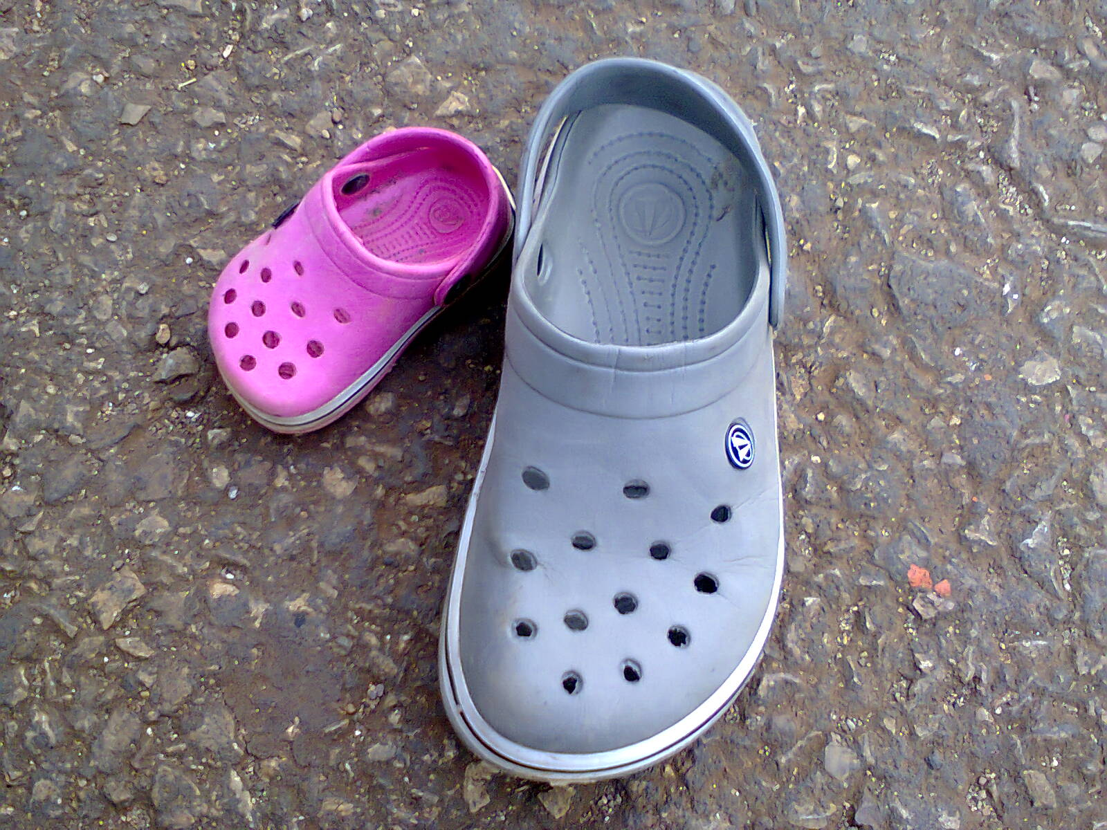 suatu saat yang kecil akan pas pakai yang besar :')